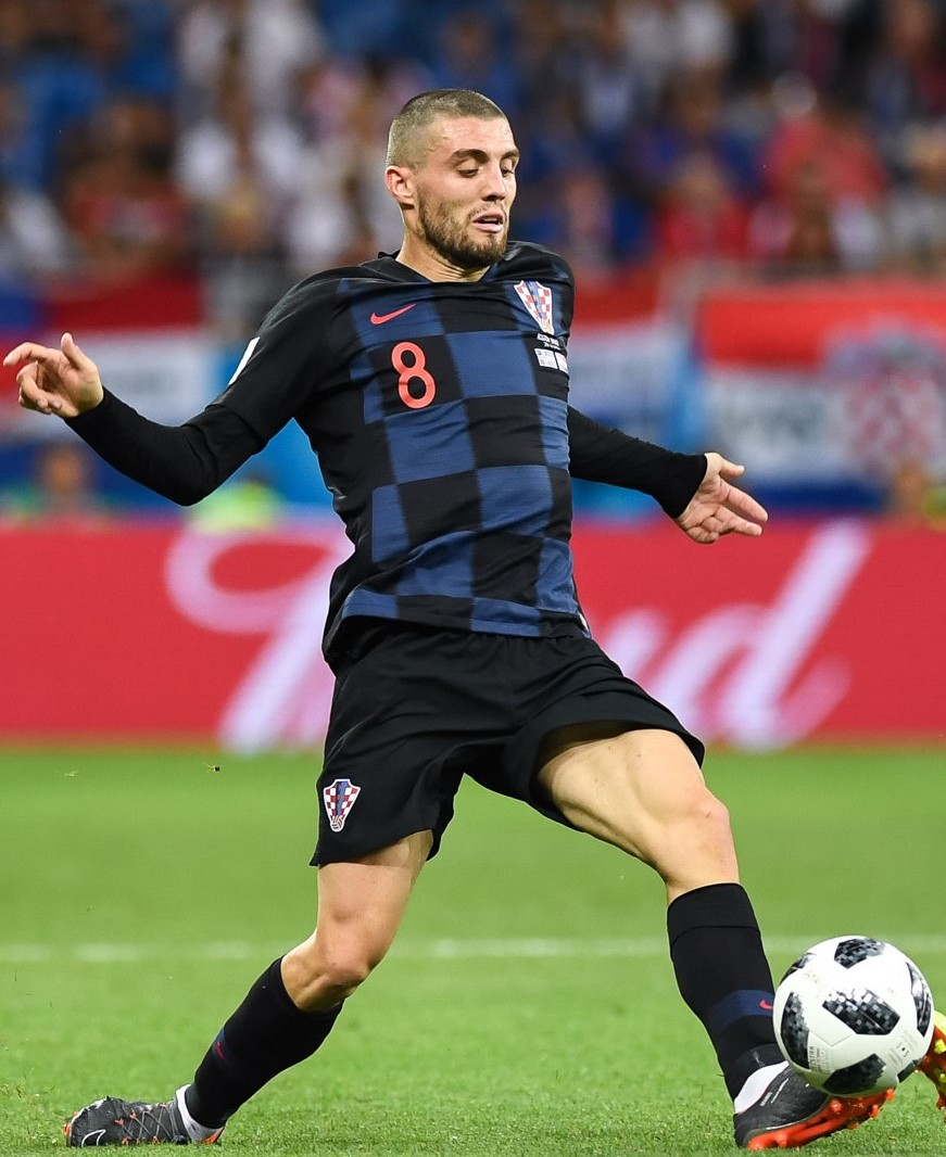 Mateo Kovačić